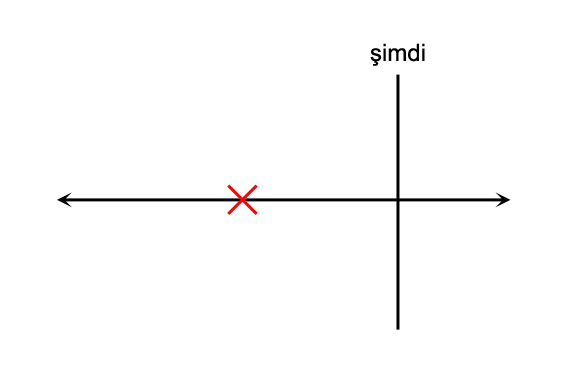 Past definite tense in Turkish. Used for definite, completed past events, usually witnessed by the speaker.